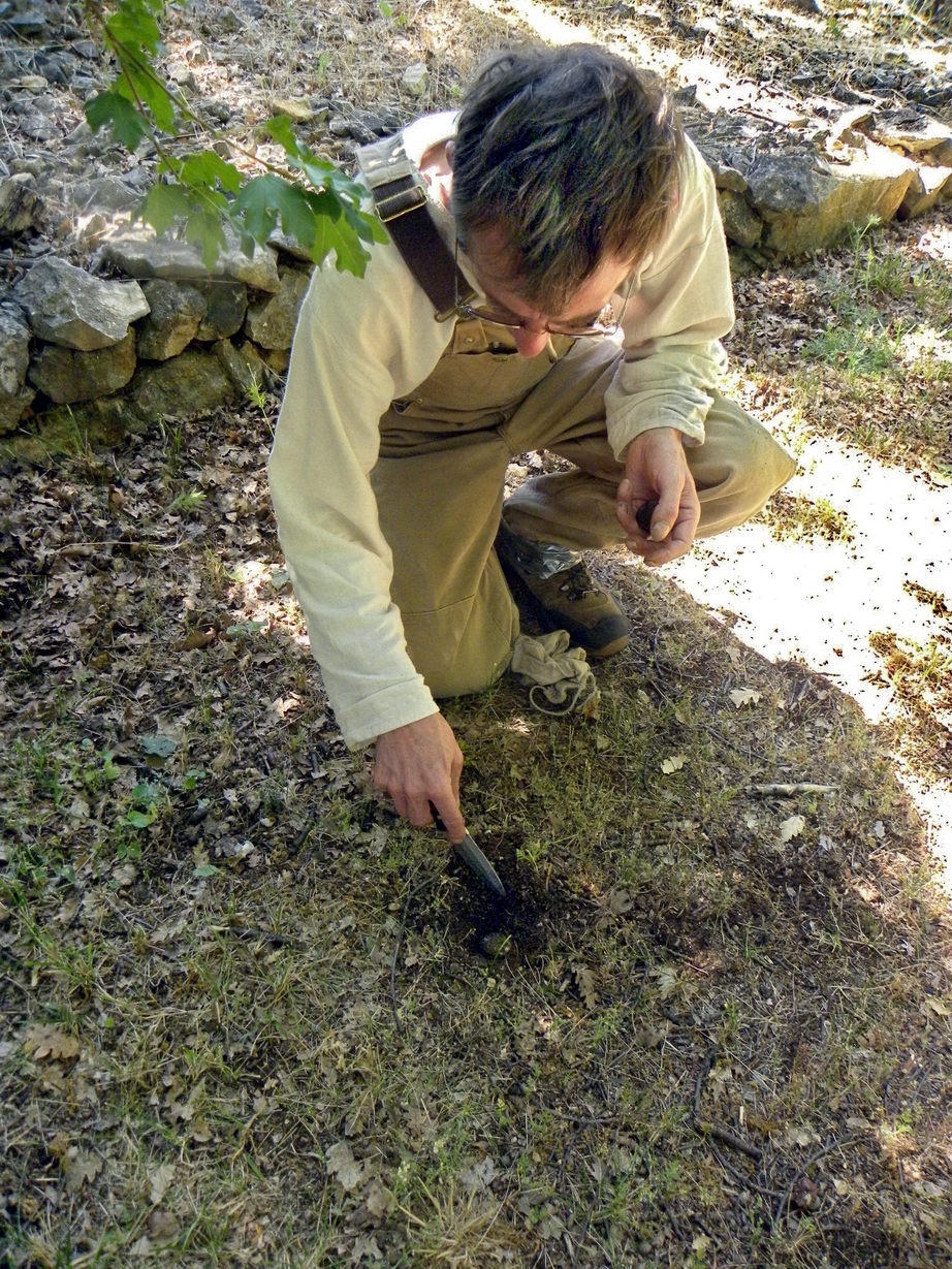 Truffle discovering in Mons, Var